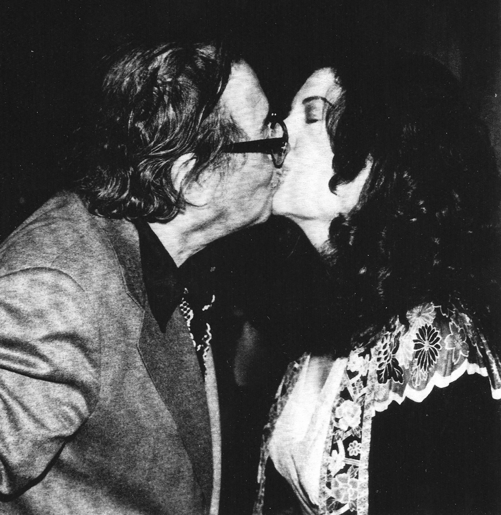 Tennessee Williams Karen Kondazian at Rose Tattoo Play 1979